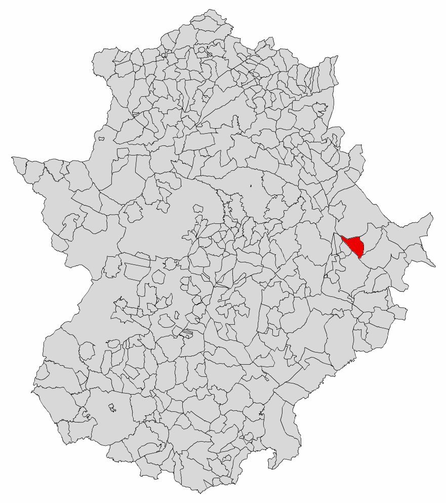 Valdecaballeros, situation in Extremadura